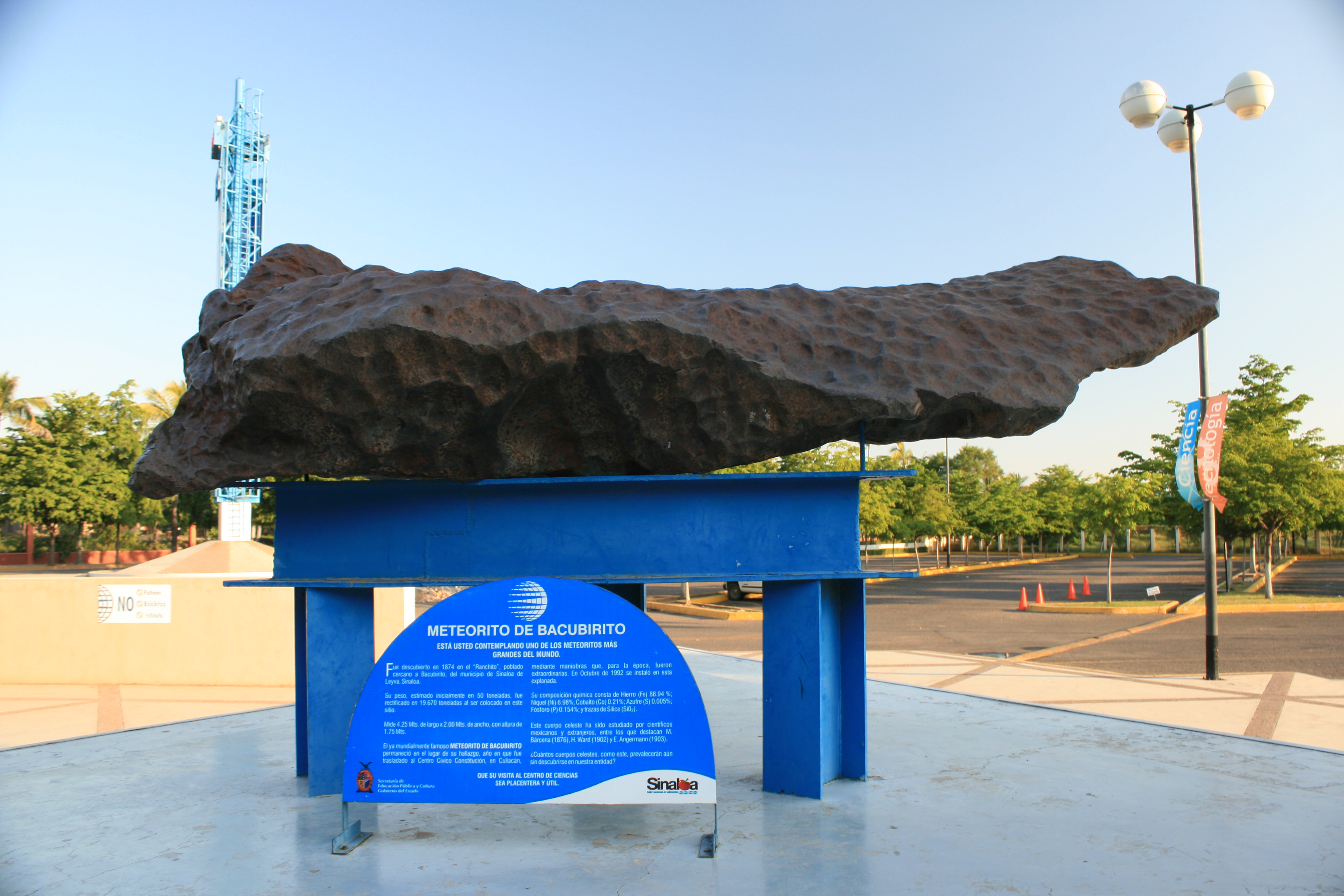 Discovered on 1874 in "El Ranchito" close to "Bacubirito" Municipality of Sinaloa de Leyva, Sinaloa, Mexico. Weight 19.670 Tons. Dimensions 4.25 meters long, 2.00 meters wide and 1.75 meters height.